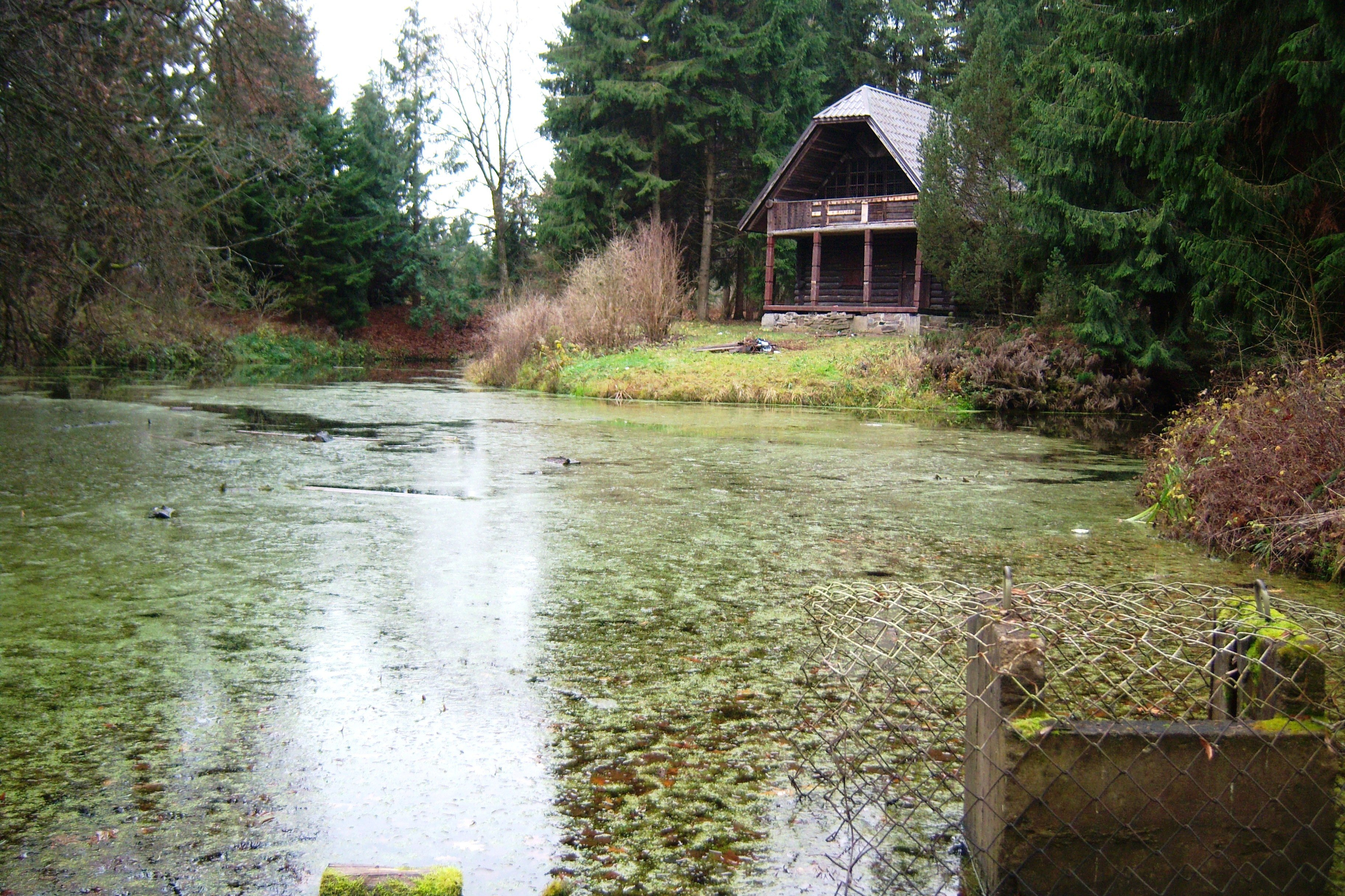 Pond (dammed stream of Varžupis) in Obelynės park in Kamšos Botanical and Zoological Reserve, Akademija, Kaunas district, Lithuania